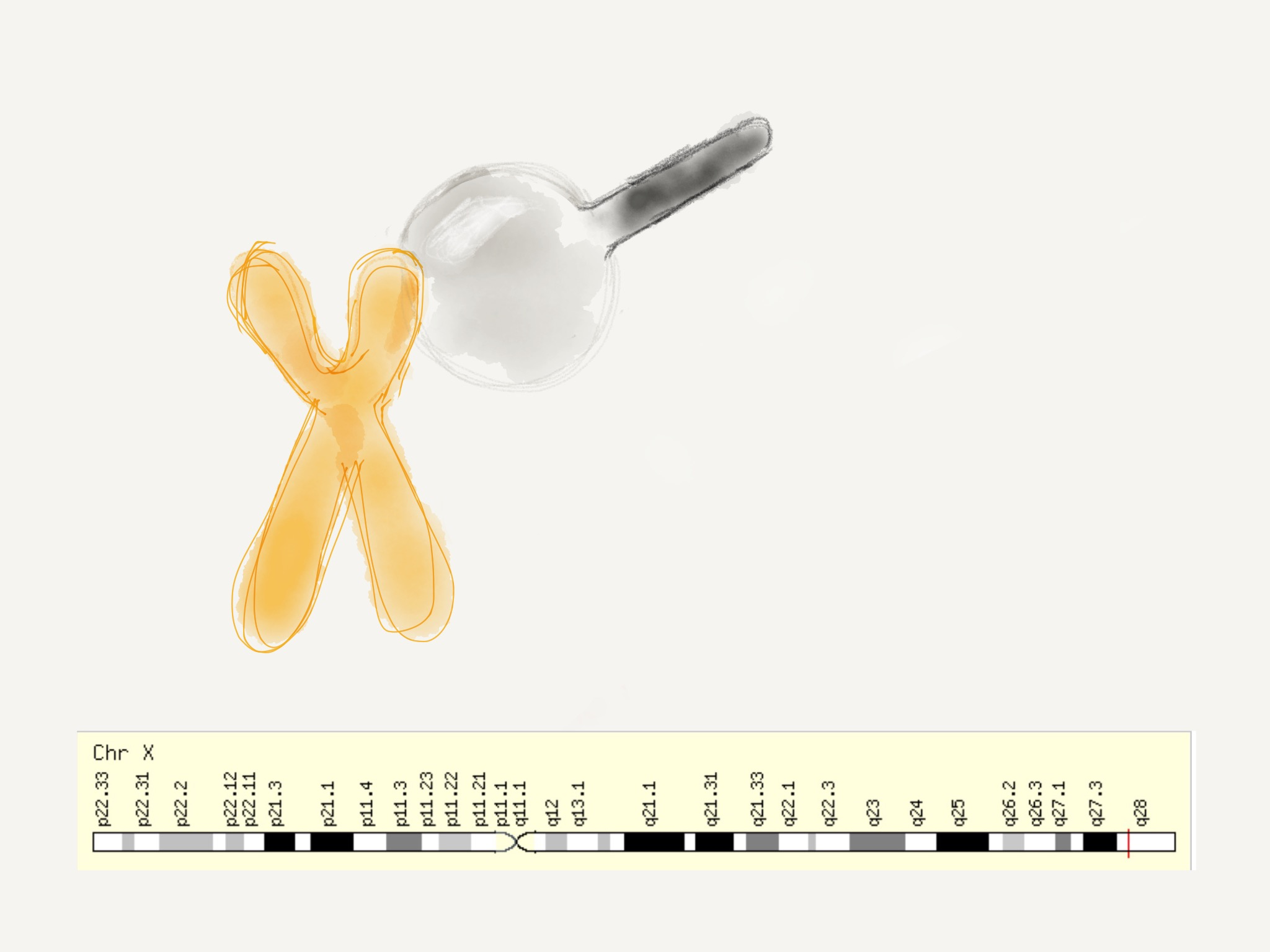 A la figura hi podem trobar on es codifica el gen IDS. Al braç llarg (q) del cromosoma X hi trobem el gen IDS, concretament a la posició 28.